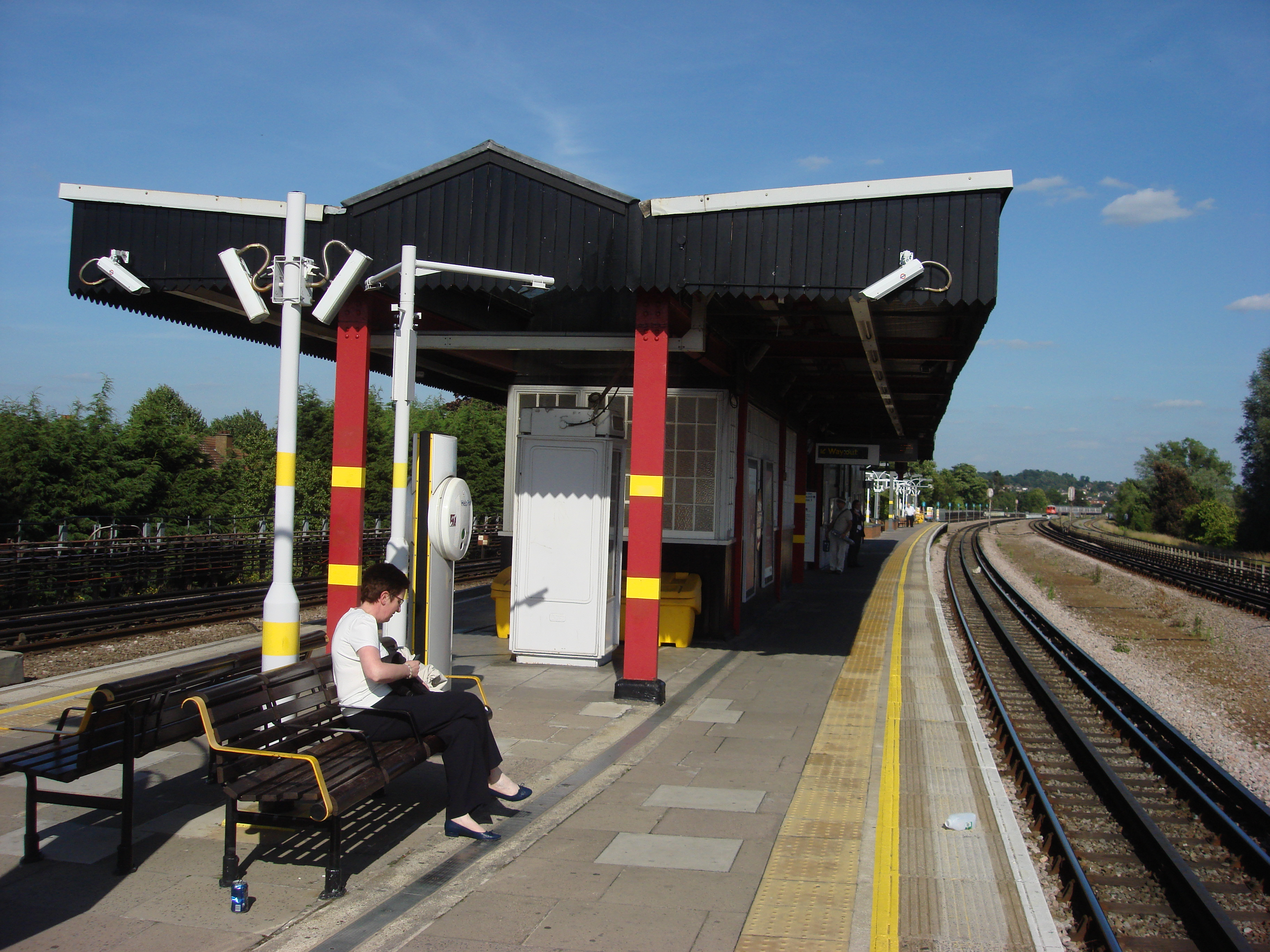 Northwick Park tube Island platform looking south on the Northbound platform